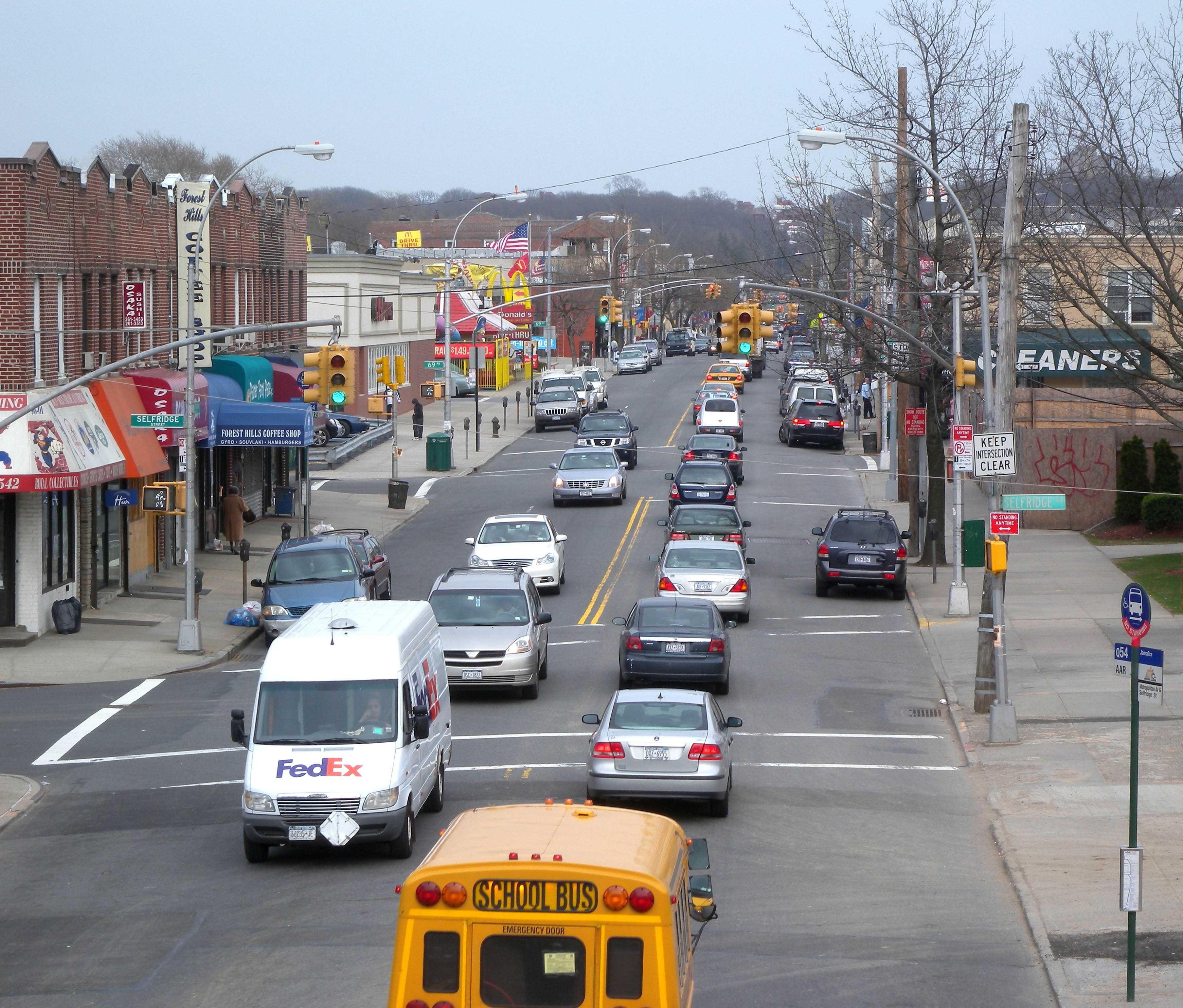 Looking east from Rockaway Beach overpass along Metropolitan Avenue on a cloudy afternoon.